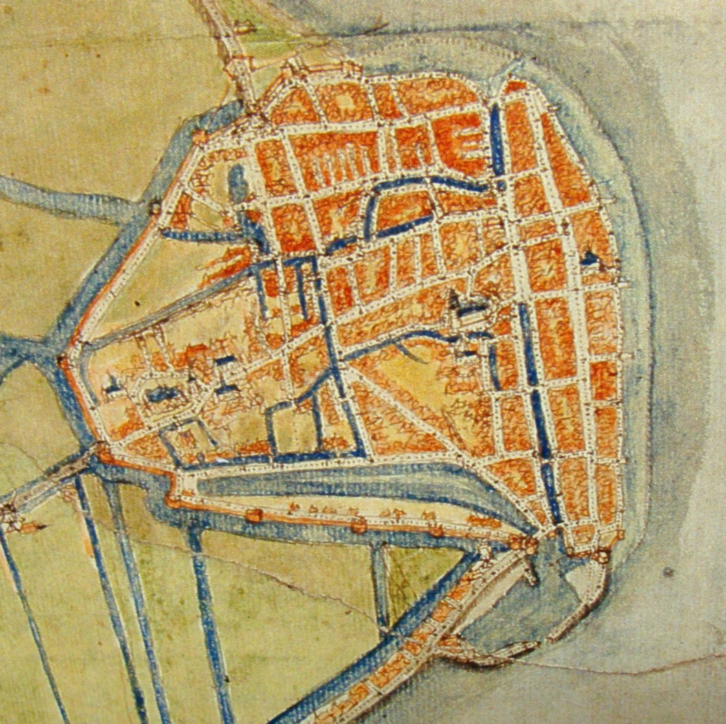 Detail of an old map of the Dutch town of Enkhuizen from 1558-1560, by Jacob van Deventer (ca. 1500 - 1575).